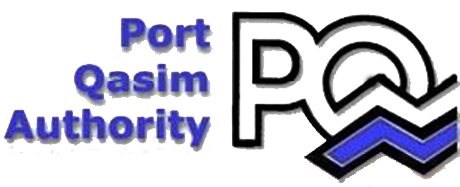 Official Logo of Port Qasim Authority, Pakistan